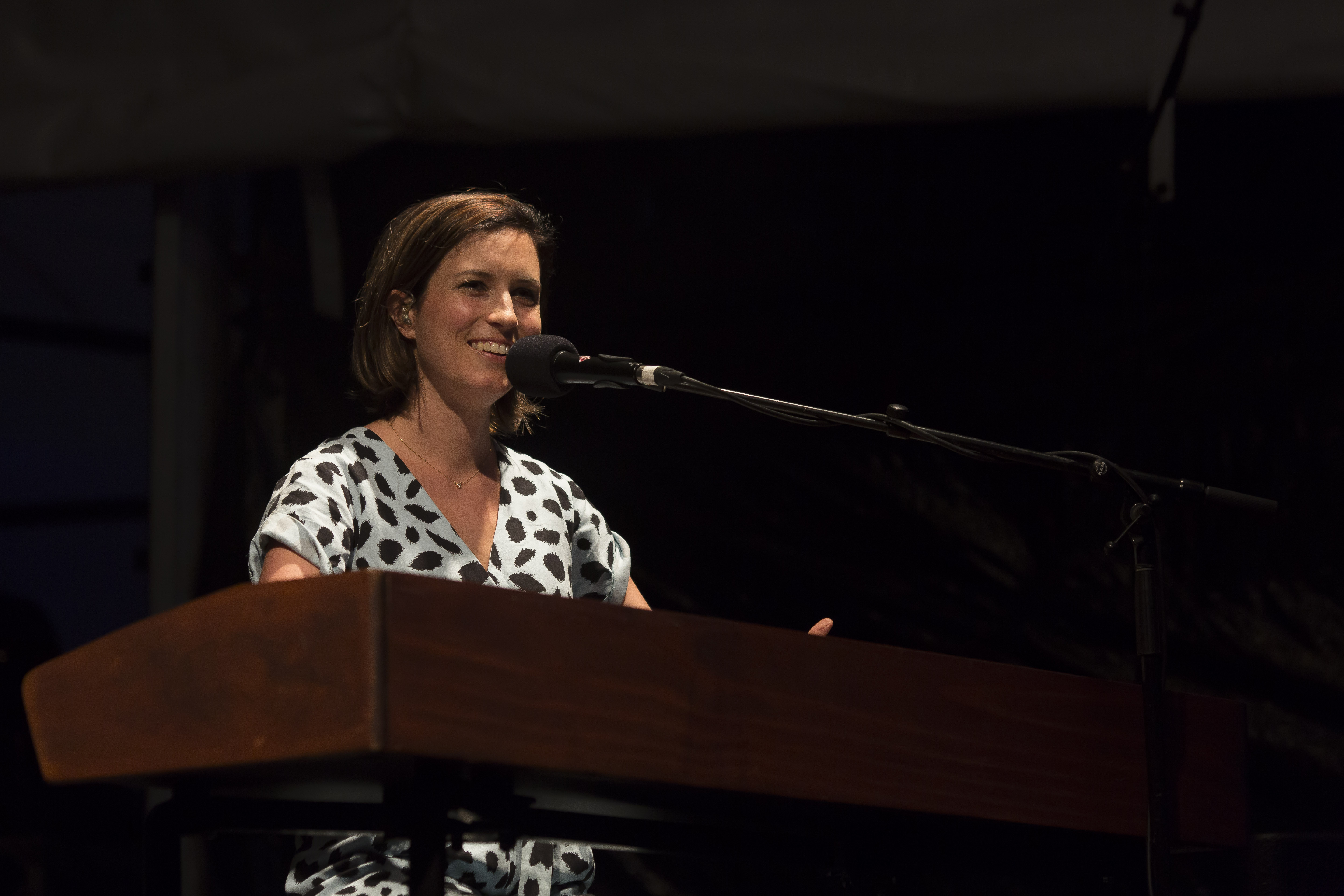 Missy Higgins - Taronga Zoo - 21st Feb 2016